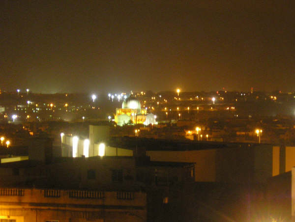 Qormi by night, seen from Marsa.